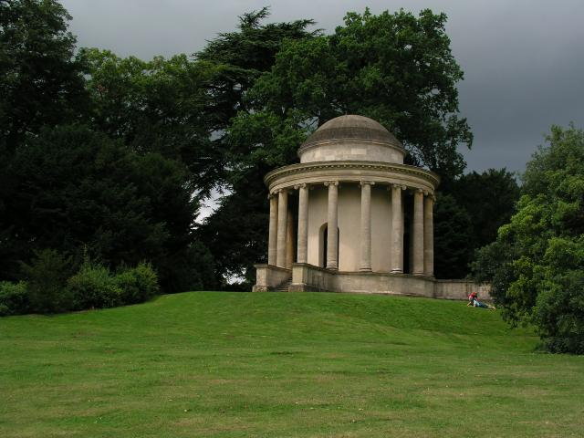 Stowe, the Temple of Ancient Virtue